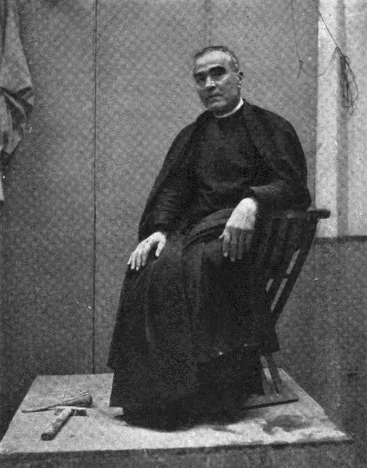 Jacint Verdaguer.